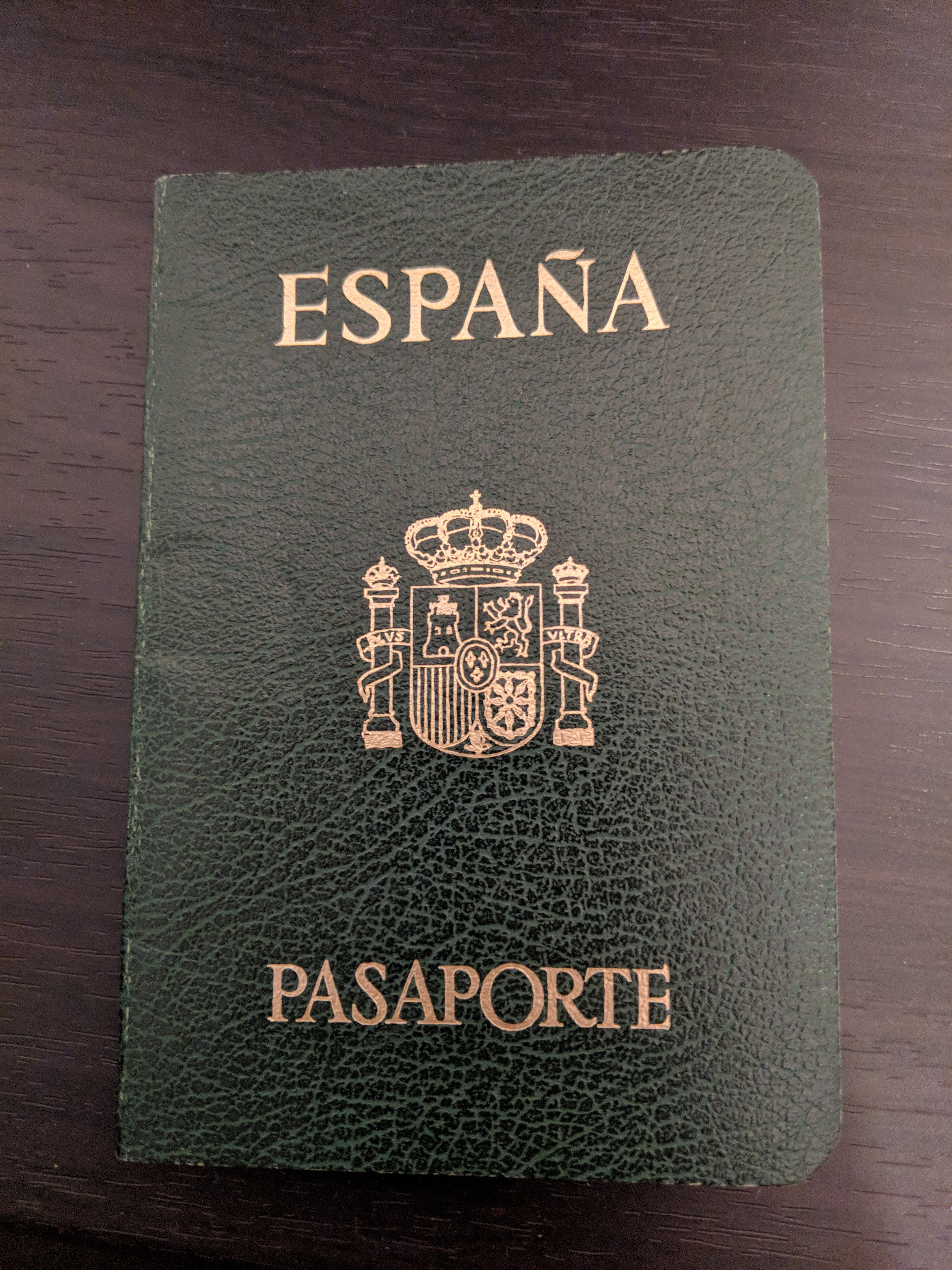 Spanish passport year 1988